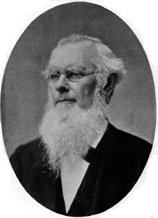 Milo Parker Jewett (1808-1892)